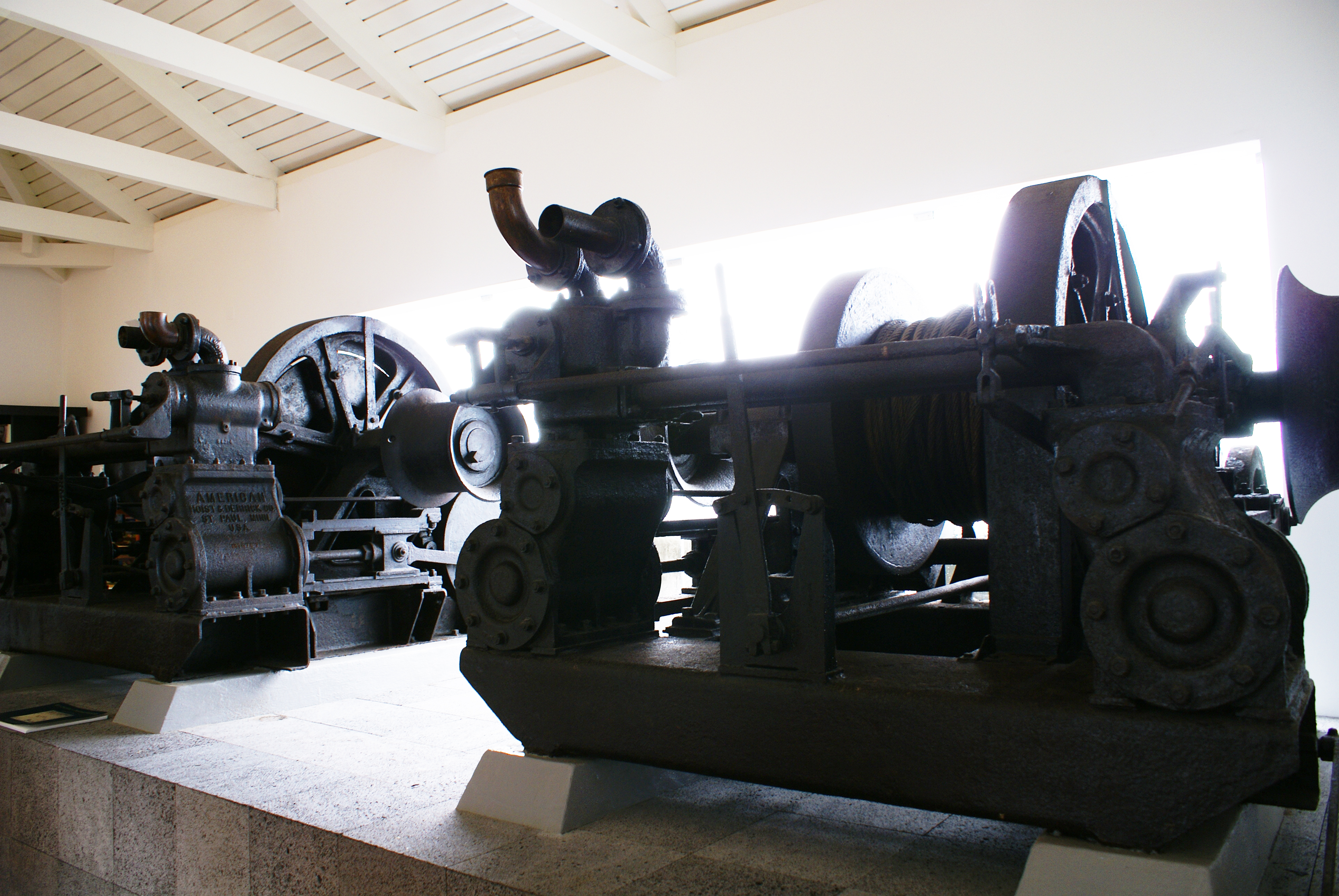 Centro de Artes e Ciências do Mar, Museu da Baleia, maquinaria da Fabrica de óleos de baleia, concelho das Lajes do Pico, ilha do Pico, Açores, Portugal